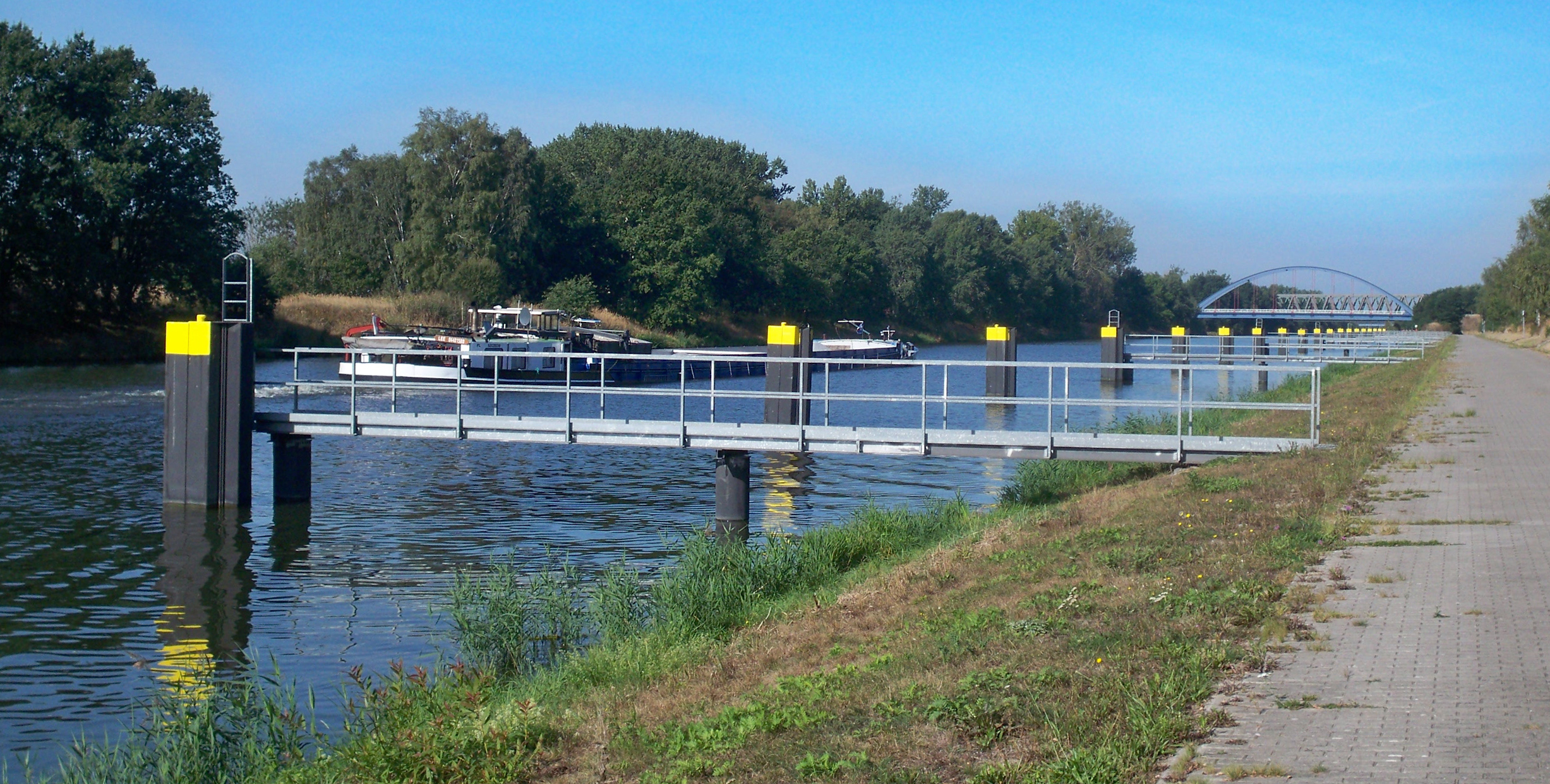 Bergfriede, municipality of Oebisfelde-Weferlingen, Saxony-Anhalt, landing place at Mittellandkanal